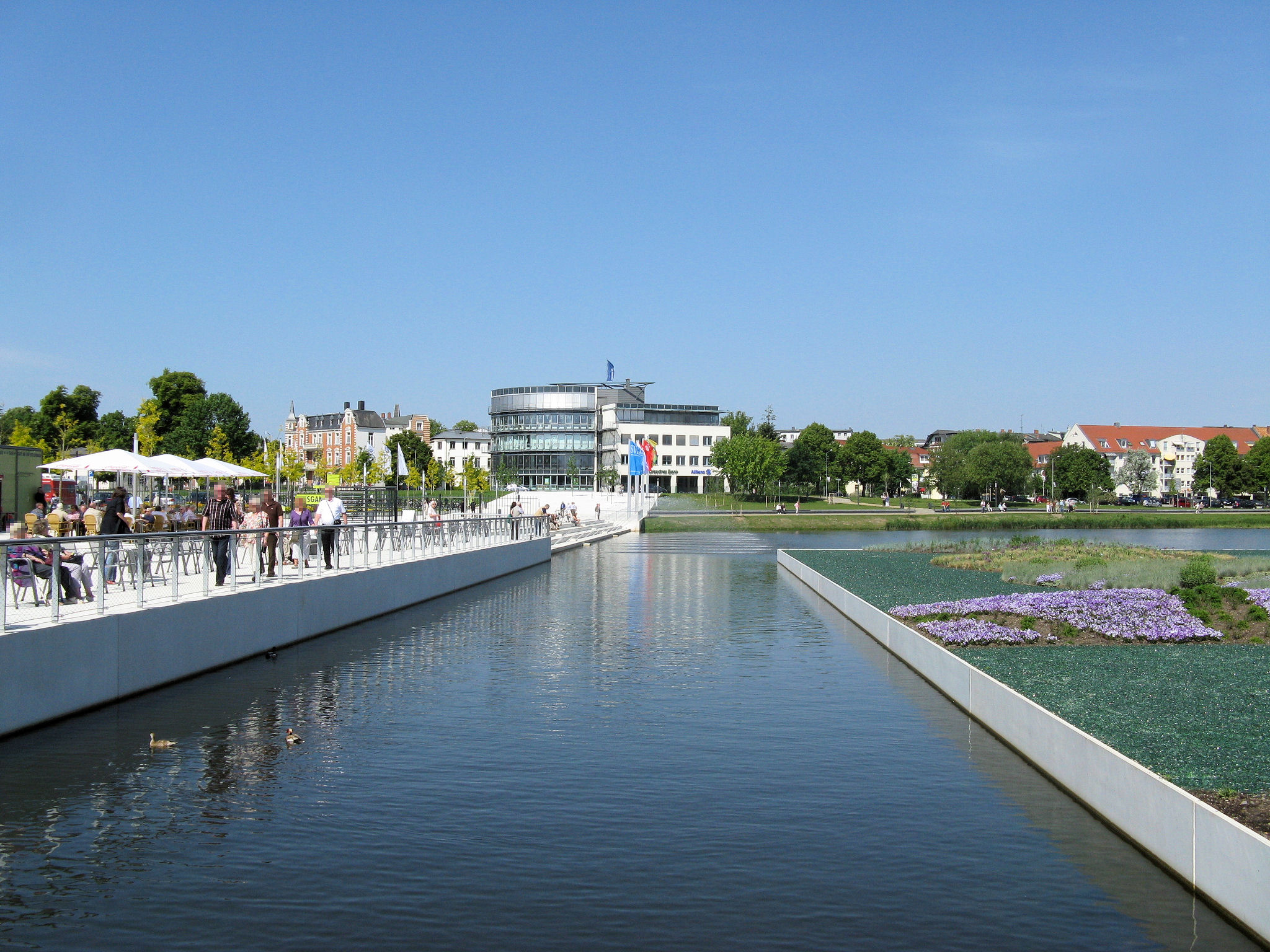 Bundesgartenschau 2009 - Bertha-Klingberg-Platz - Burgsee - swimming isle in Schwerin, Mecklenburg-Vorpommern, Germany